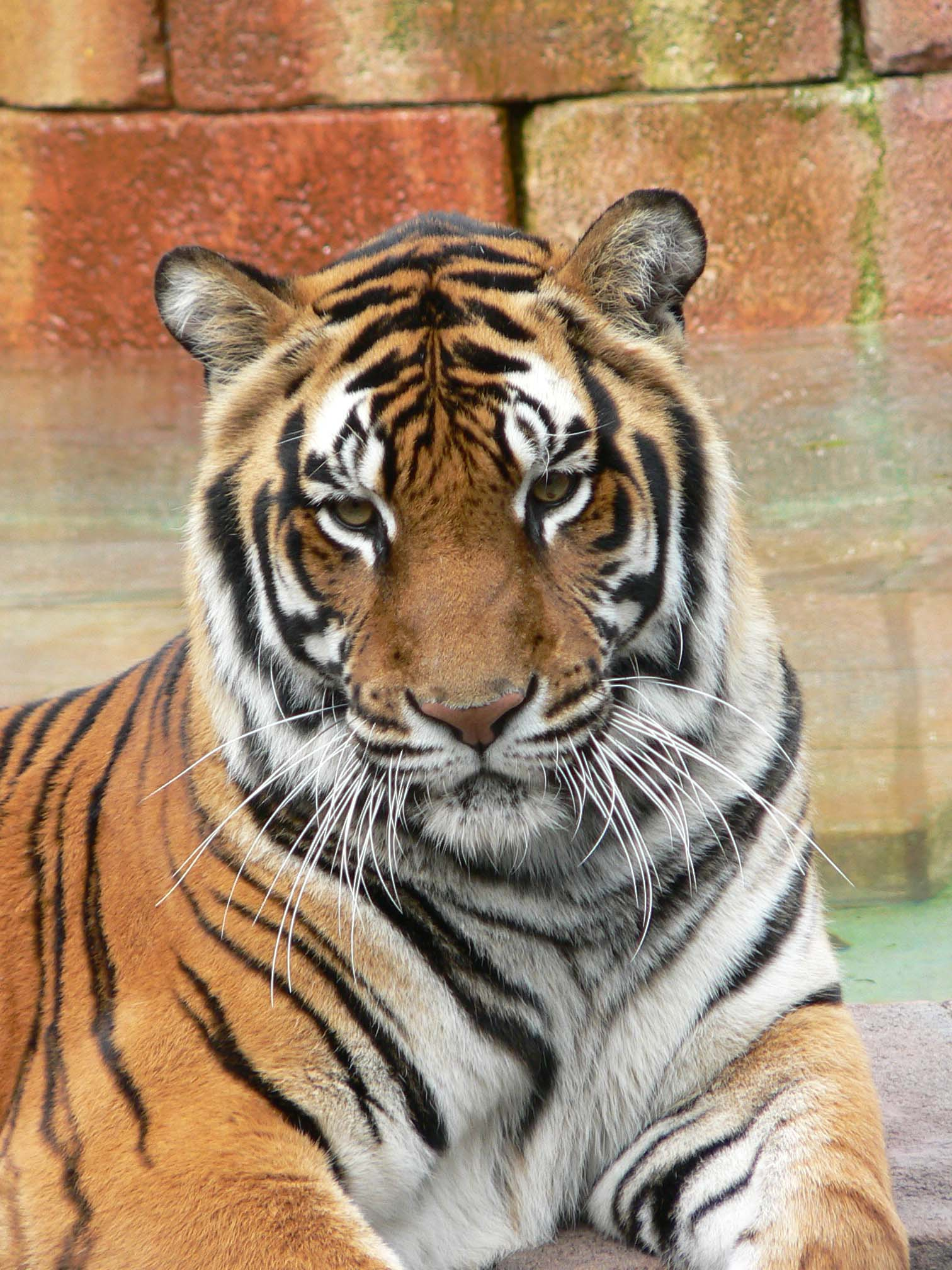 Pictures from Disney's Animal Kingdom.